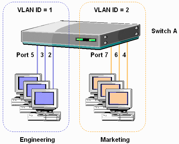 Virtual LAN